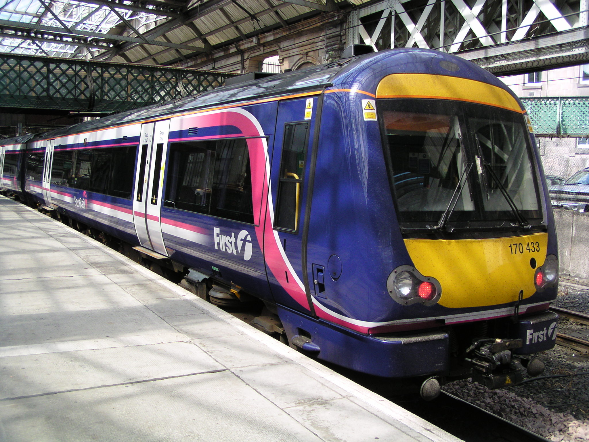 BR Class 170/4, no. 170433 at Edinburgh Waverley on 1st July 2005. This unit carries the new First ScotRail livery.